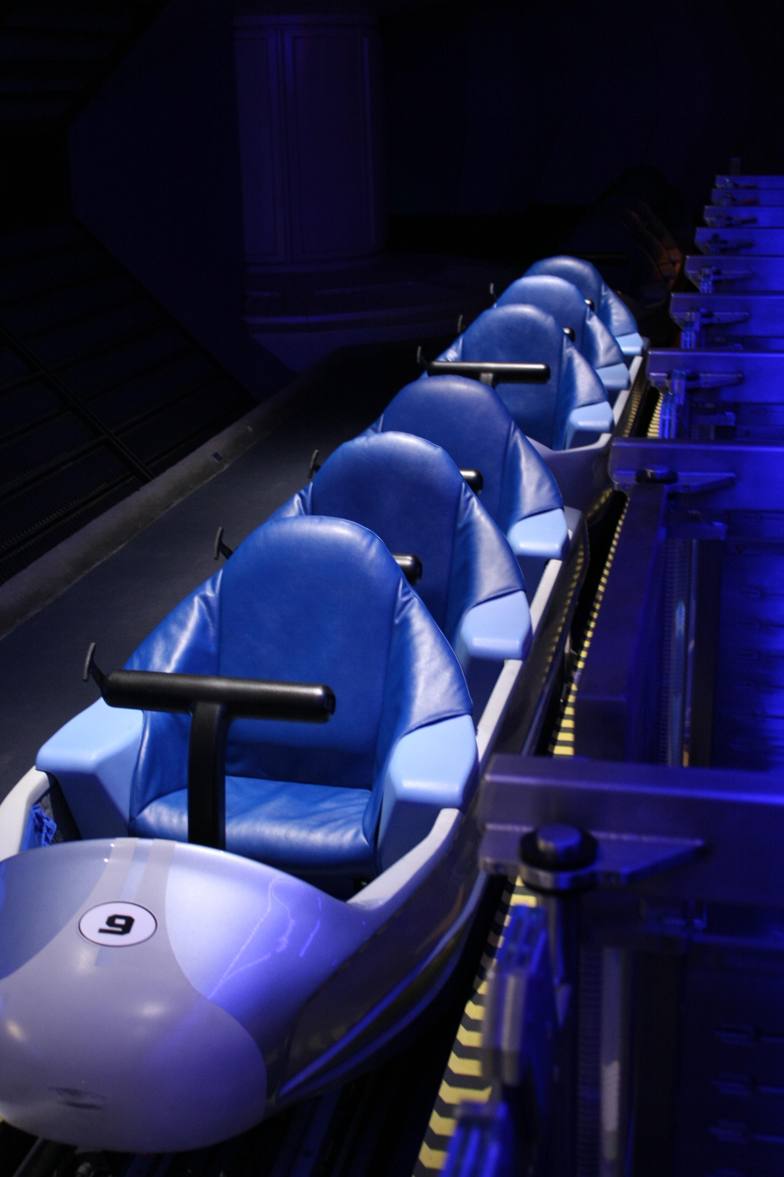 Space Mountain roller coaster at Walt Disney World Magic Kingdom Train after 2009 refurbishment